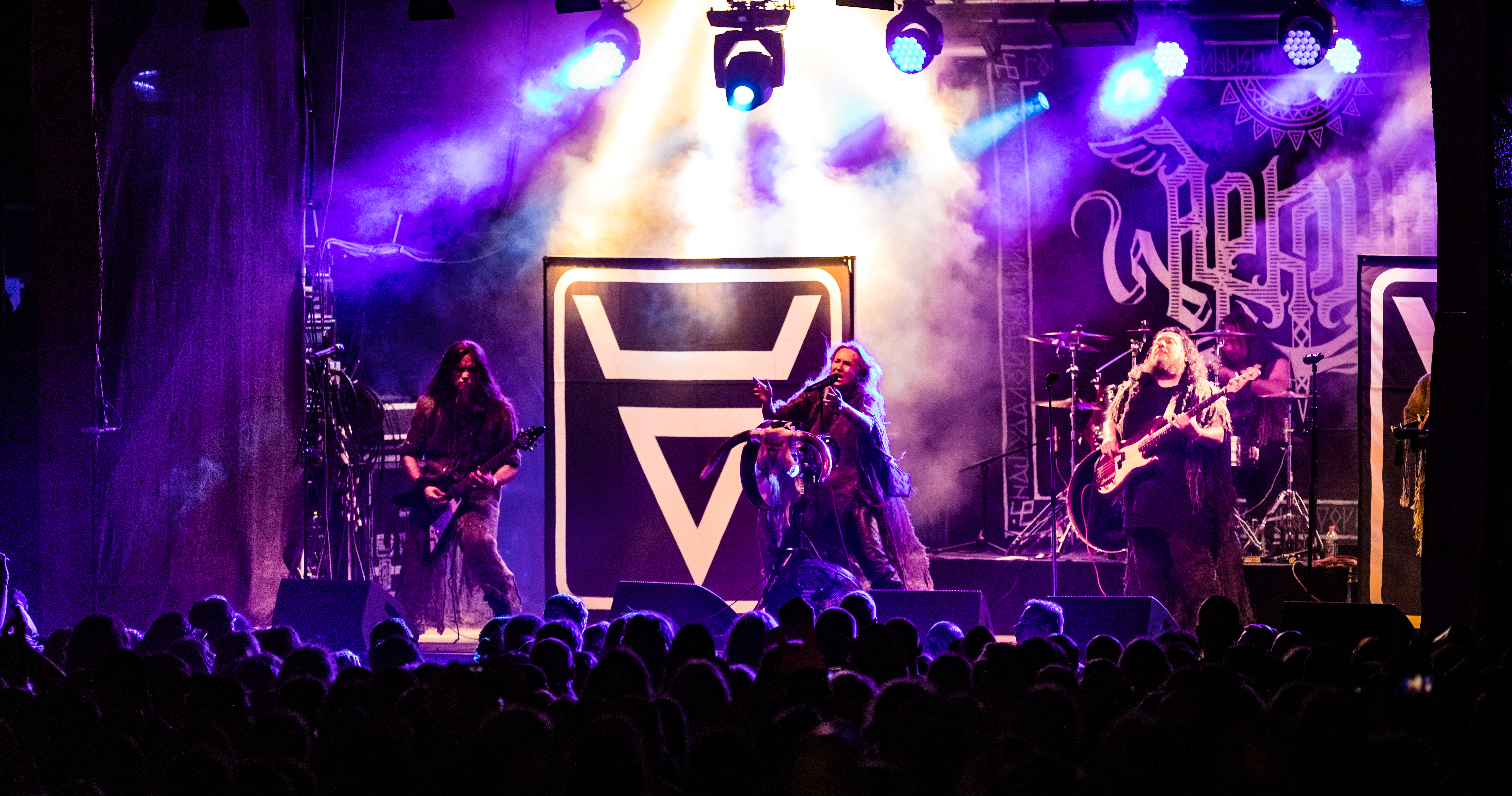 Arkona - Wacken Open Air 2018